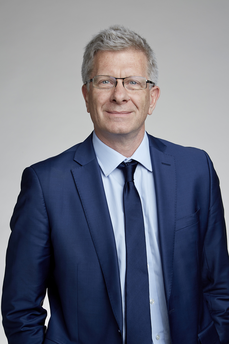 Richard Paul Harvey FRS is the Sir Peter Finley Professor of Heart Research at the University of New South Wales and Deputy Director and Head of the Developmental and Stem Cell Biology Division at the Victor Chang Cardiac Research Institute. Attribution: The Royal Society